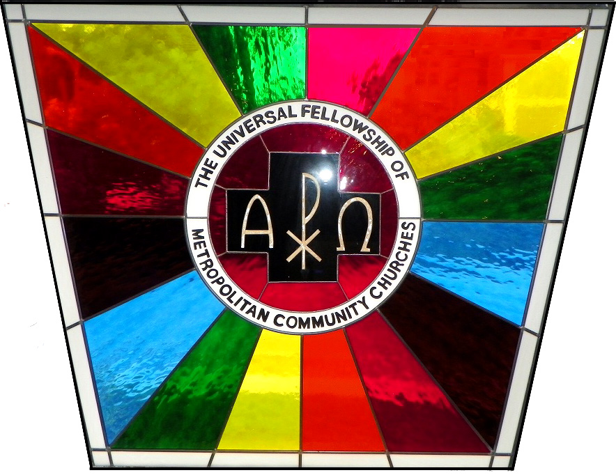 The Universal Fellowship of Metropolitan Community Churches. Stained glass window at Church of Our Savior, MCC (Metropolitan Community Church), 2011 South Federal Hwy, Boynton Beach, Florida 33435, USA